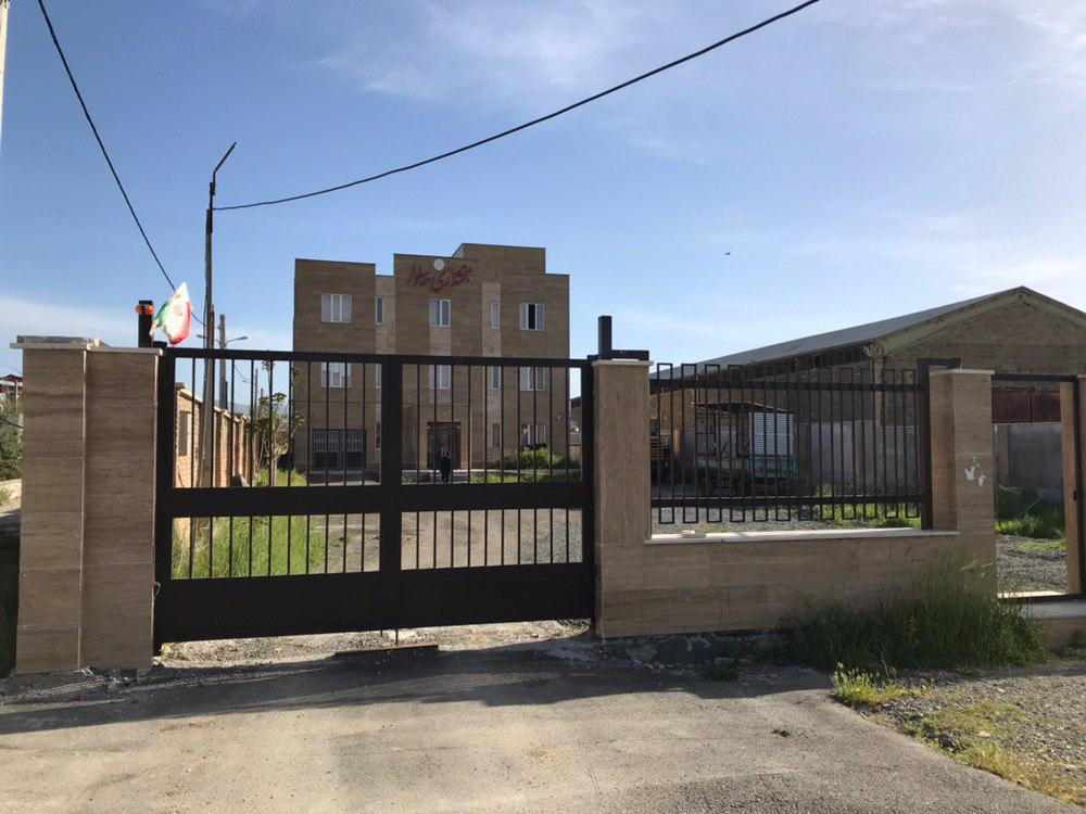 بخشداری بیلوار